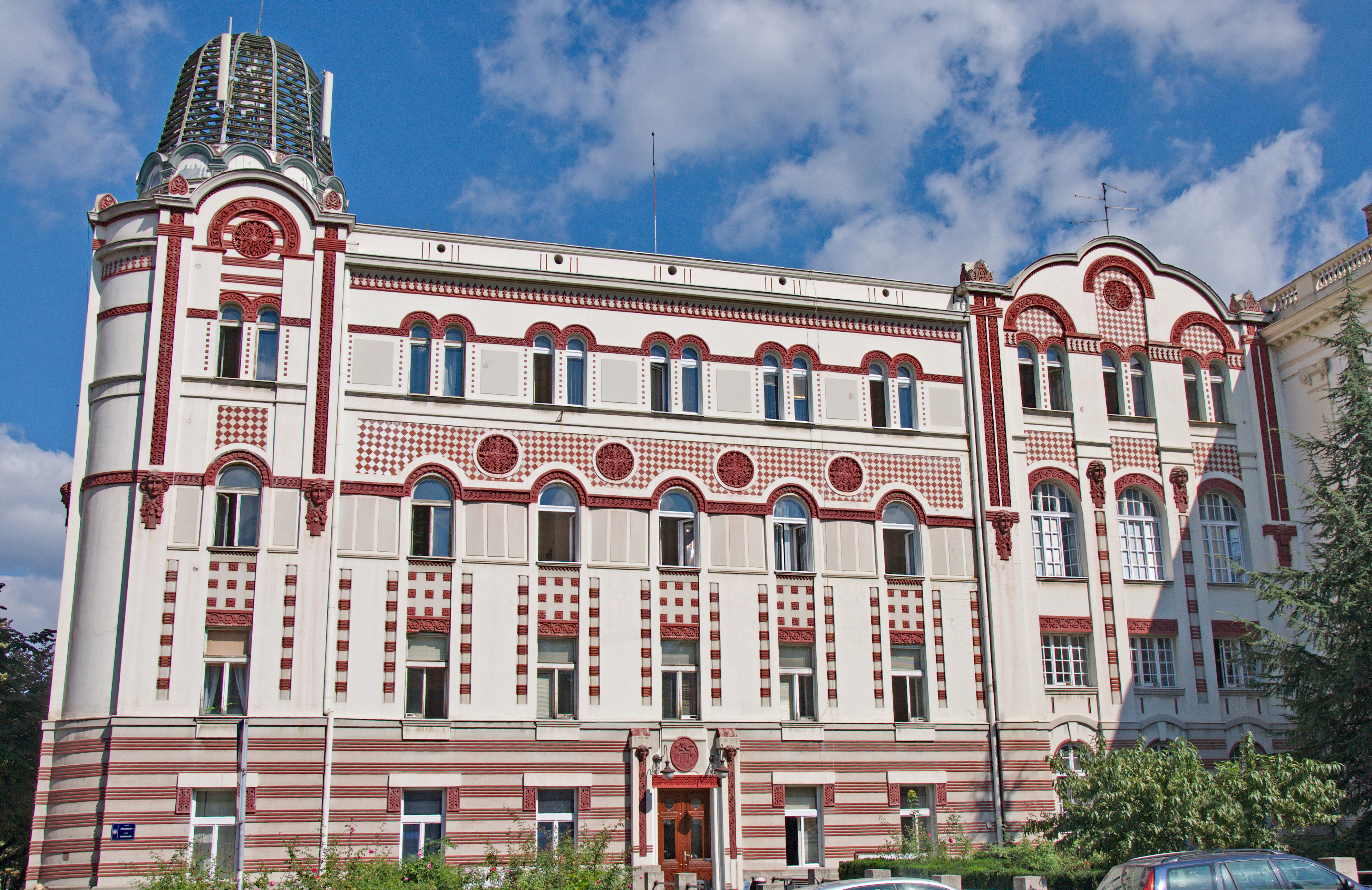 Zgrada stare telefonske centrale se nalazi u Beogradu, u Kosovskoj ulici 47. Izgrađena je po projektu Branka Tanazevića namenski za telefonsku centralu i prvi je takav objekat u Srbiji. Završena je 1908. godine. Treći sprat je dozidan posle Prvog svetskog rata.